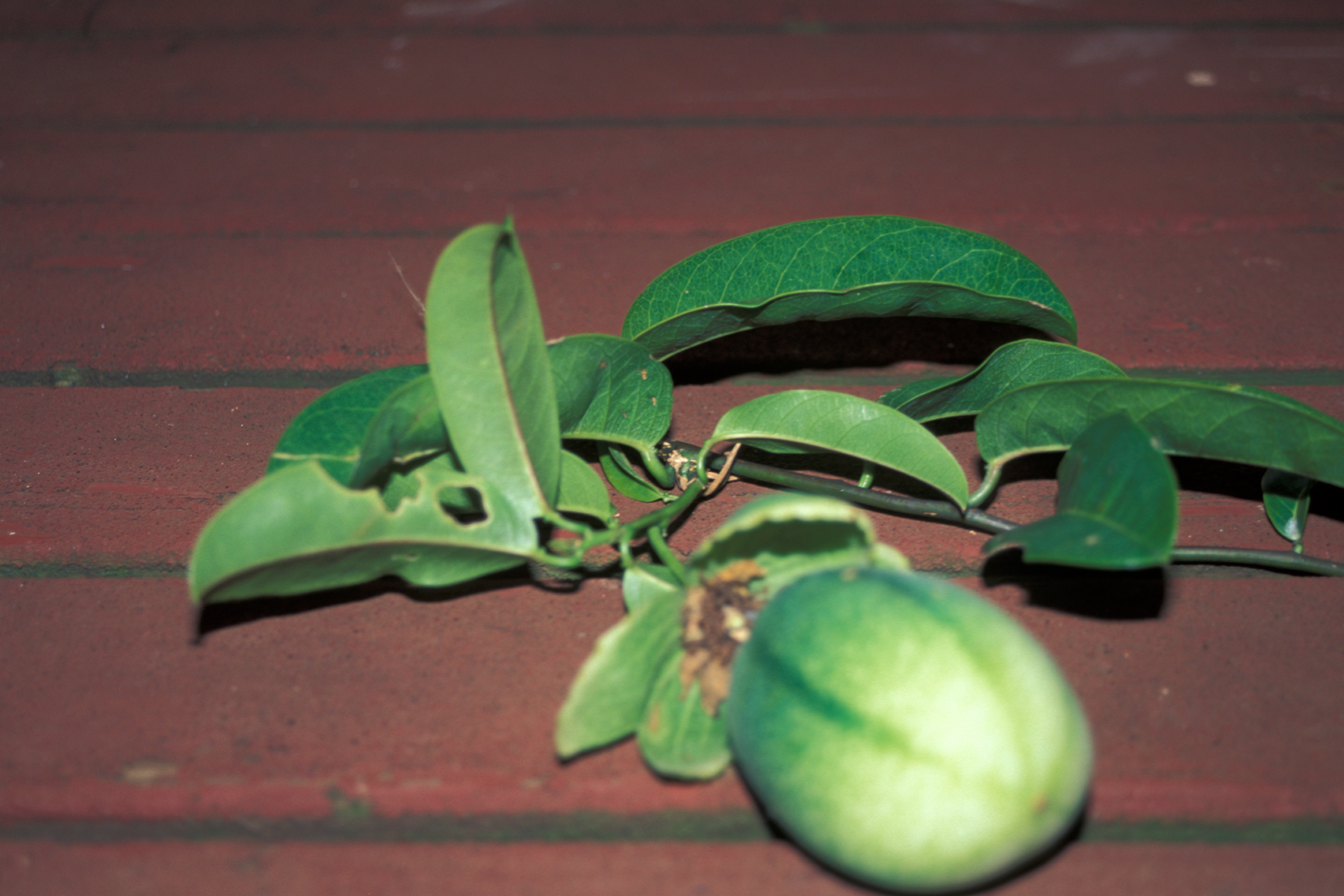 Passiflora laurifolia (with fruit). Location: Maui, Keanae